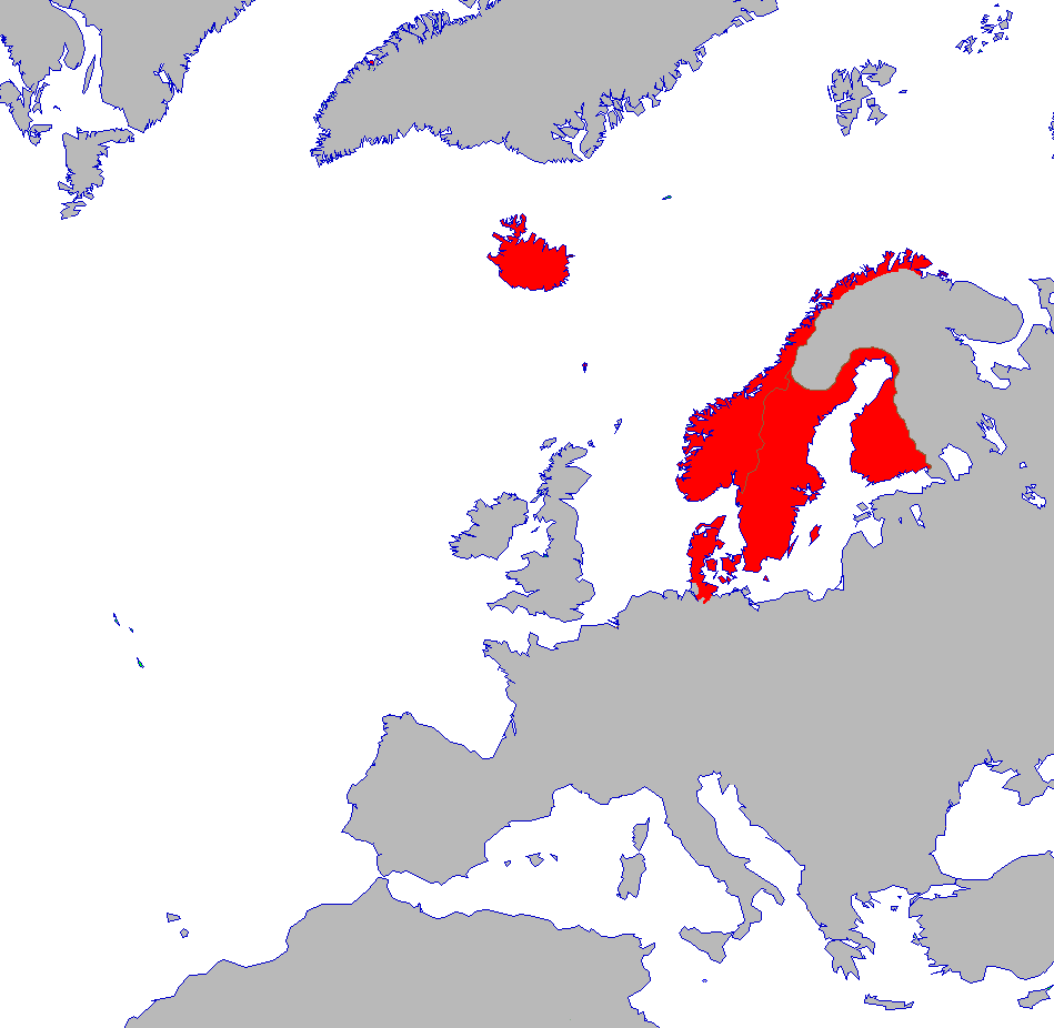 The Kalmar Union at the beginning of the 16 Century. Created by Kasper Holl, 2006. The borders between Norway, Denmark, and Sweden are incorrect.